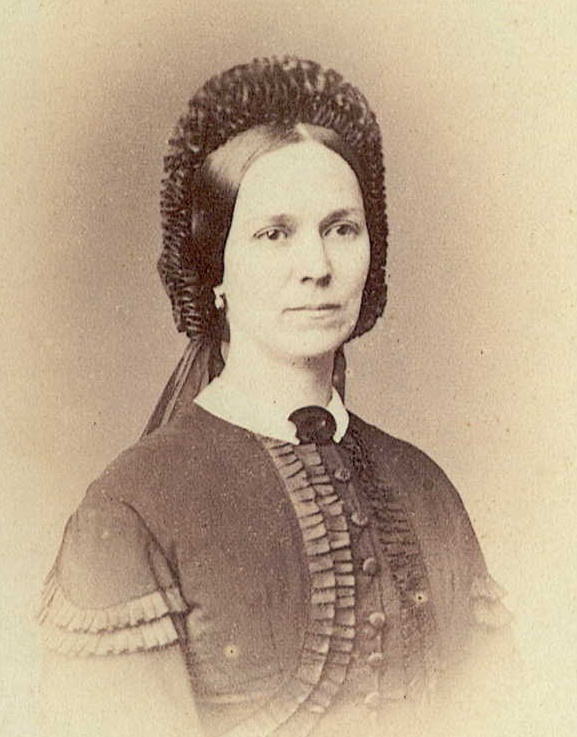 The writer, feminist and anarchist Victoire Léodile Béra known as André Léo